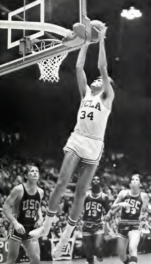 Dave Meyers of UCLA Bruins in 1972–73 against USC Trojans